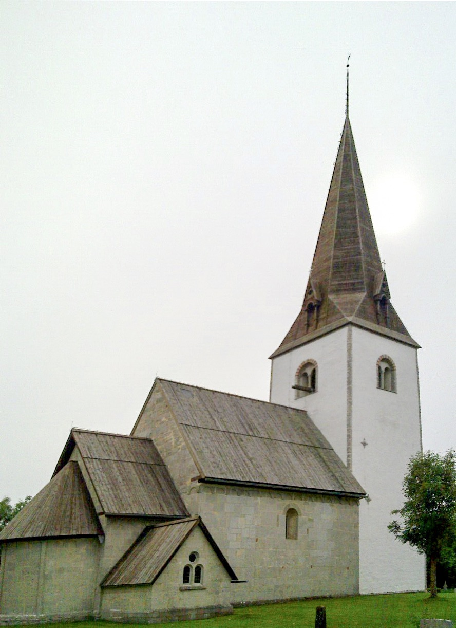 Church of Fardhem, Gotland, SE